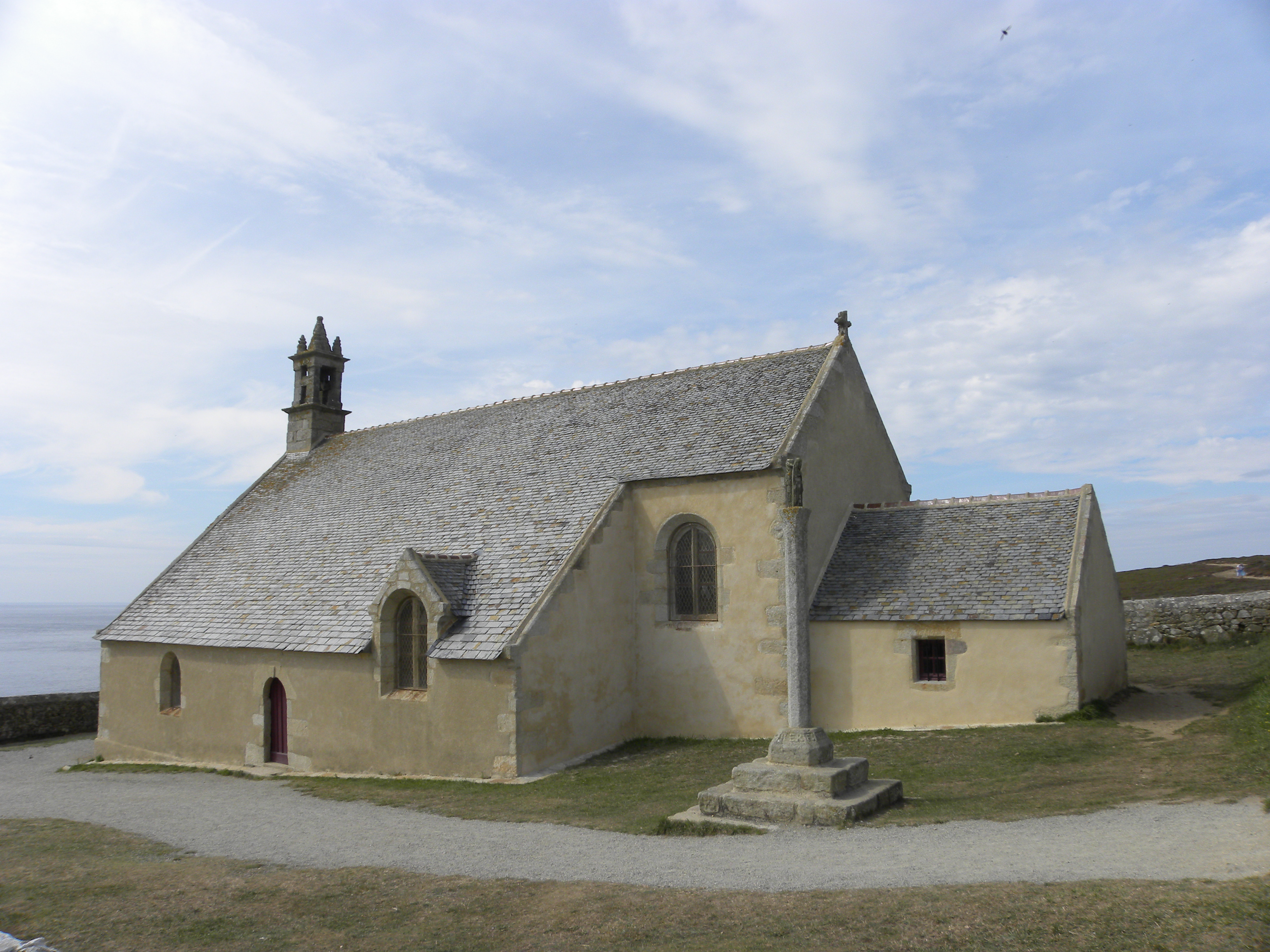 La chapelle Saint-They .